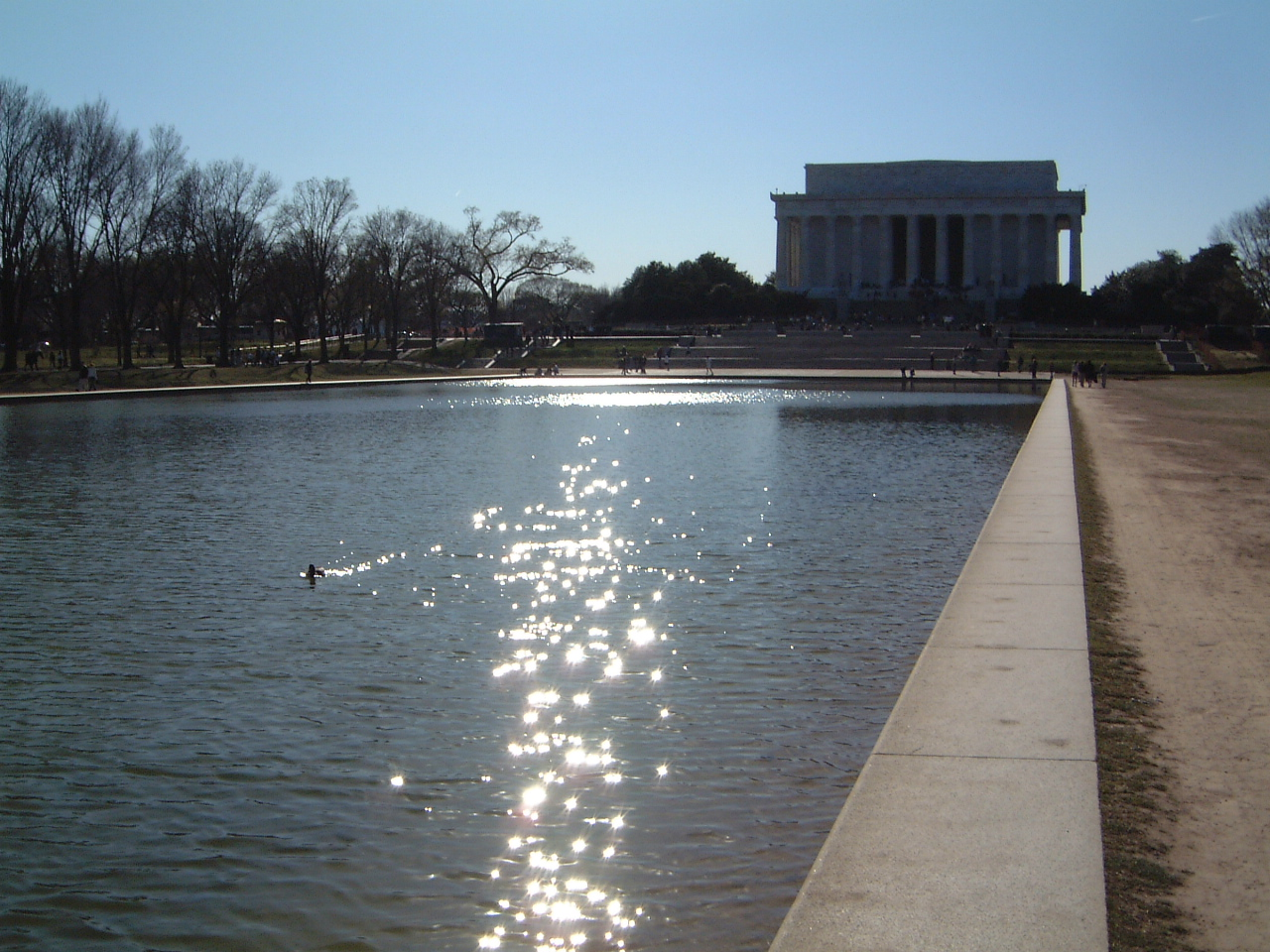 Reflecting Pool in front of the Lincoln Memorial, Washington D.C., United States. Taken by User:Alma mater, March 27, 2006. With GFDL lisence allows anyone to use this picture for any purposes.